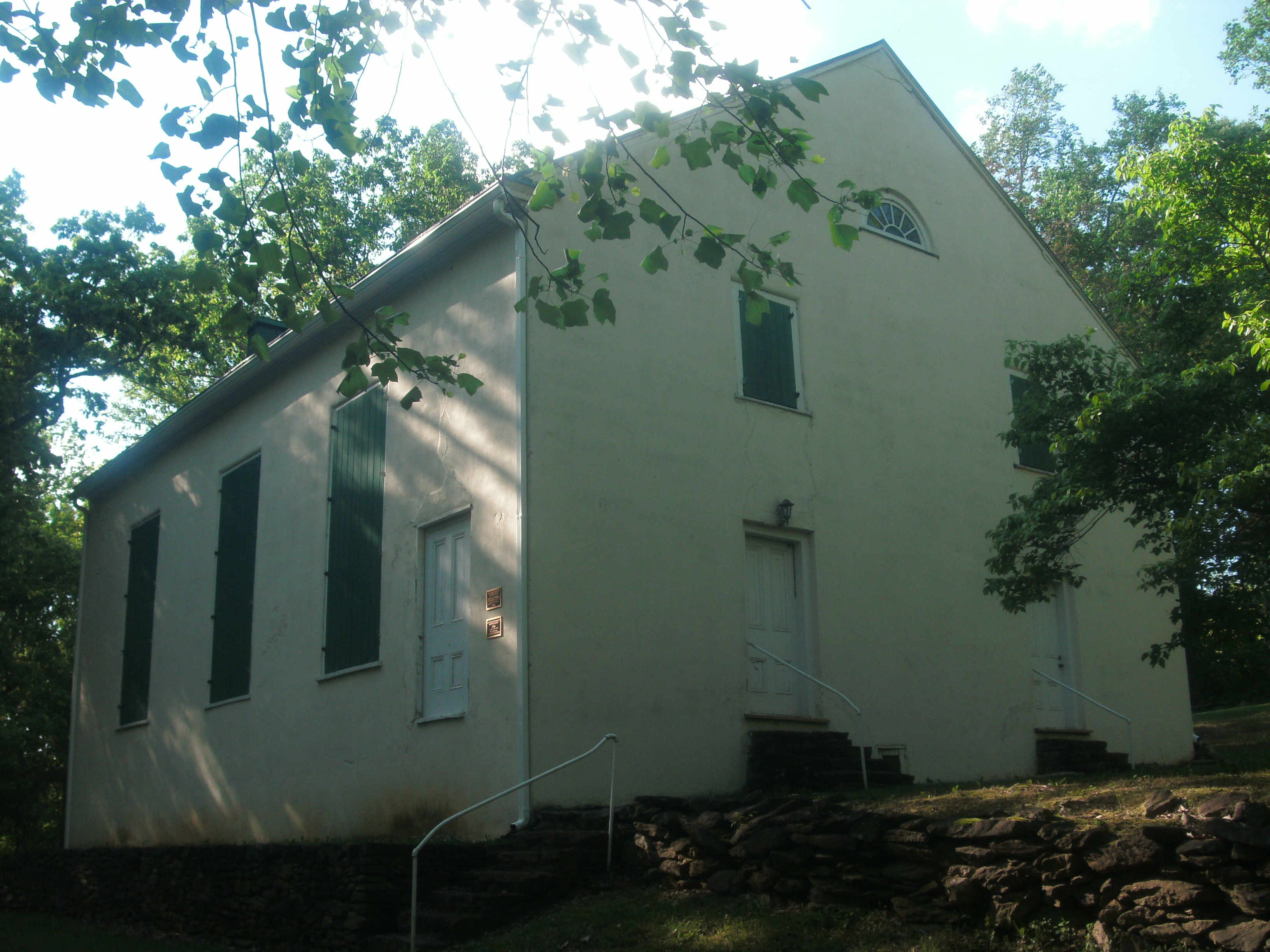 Taken by me in May, 2016 GEDSC DIGITAL CAMERA